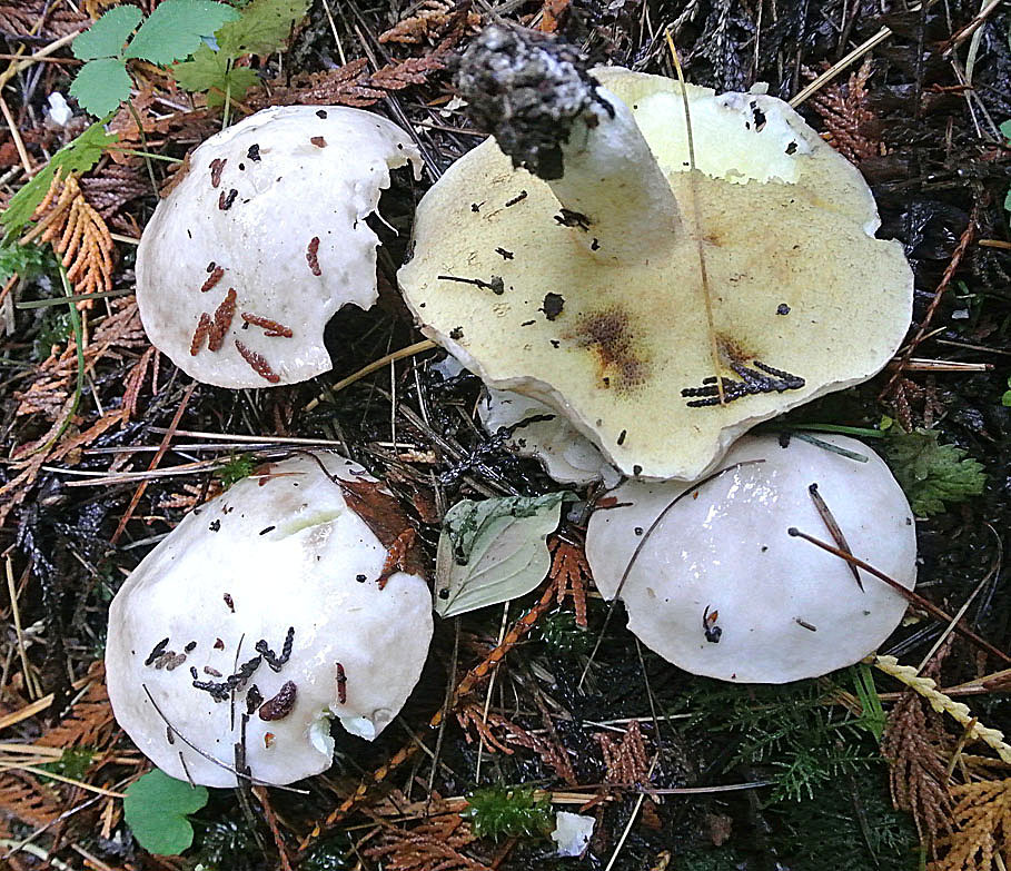 The Slippery White Bolete is a European species, and this is a western North American version.